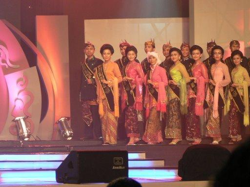 Raka Raki adalah sebutan Duta Wisata Provinsi Jawa Timur ̪